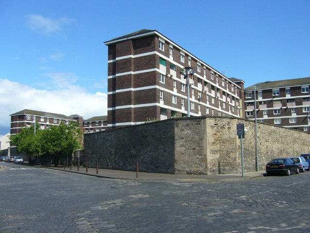 Leith Fort flats. 1960s Council housing contained within the walls of a Georgian barracks erected in 1780.